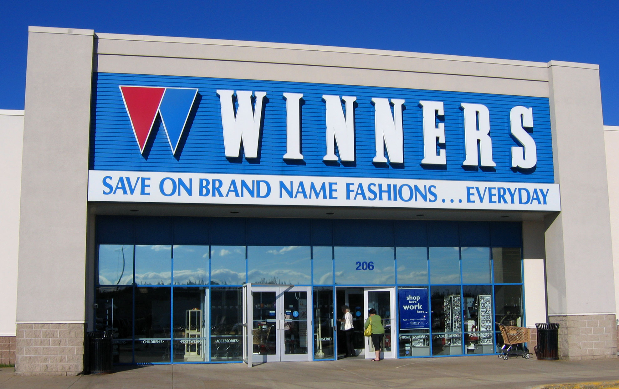 Winners store in Halifax, Nova Scotia